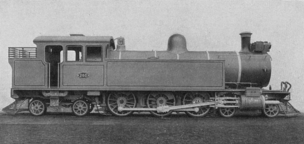 SAR Class F 78 (ex CSAR No. 260), Builders photo